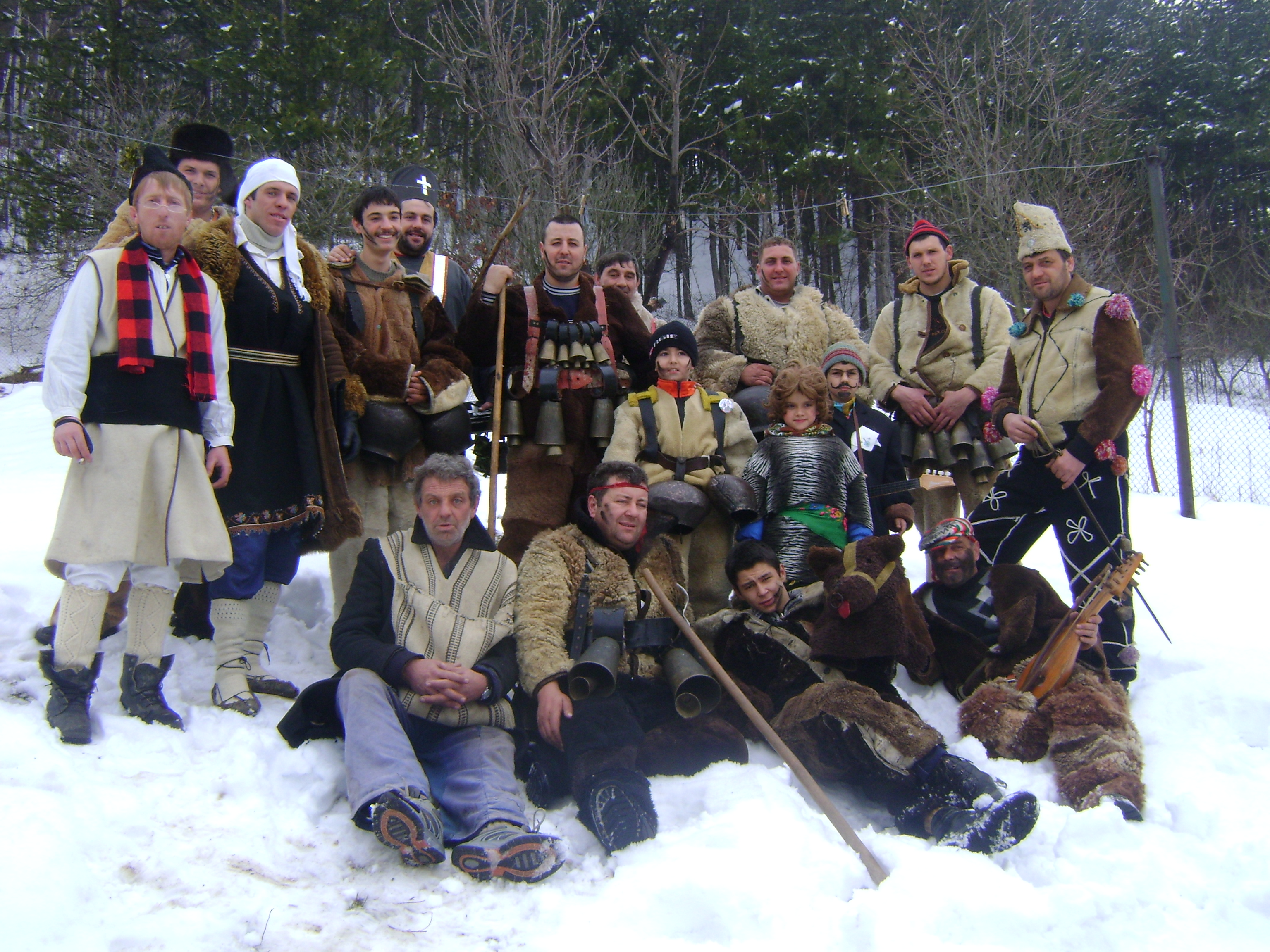 Kukeri in village Sopitsa, Bulgaria